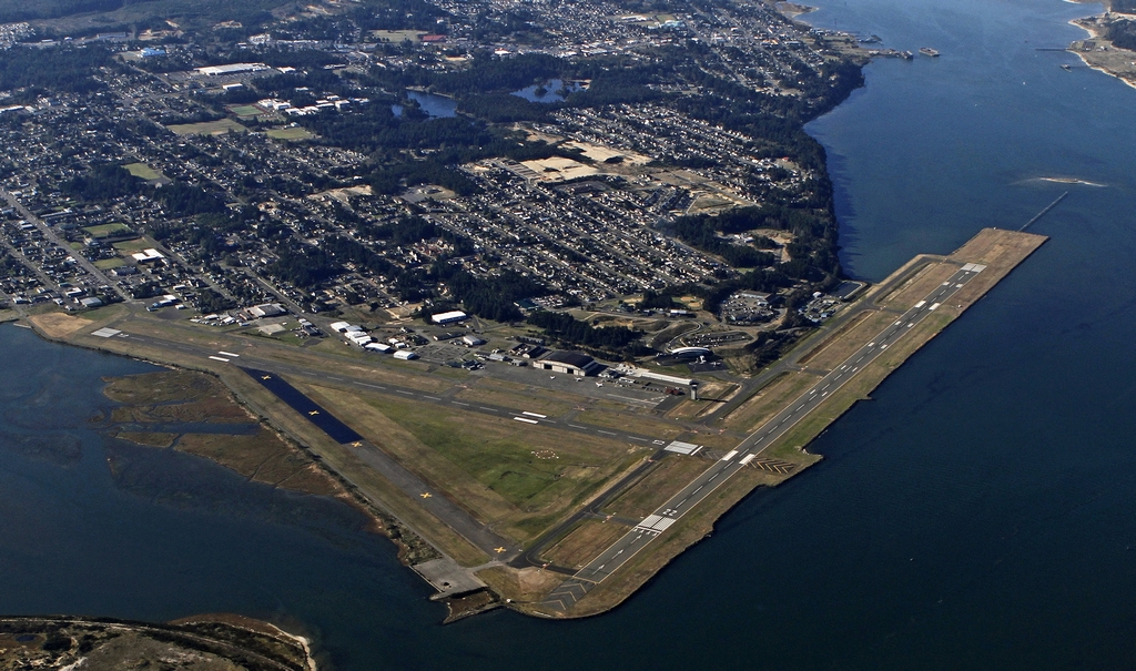 Southwest Oregon Regional Airport Aerial